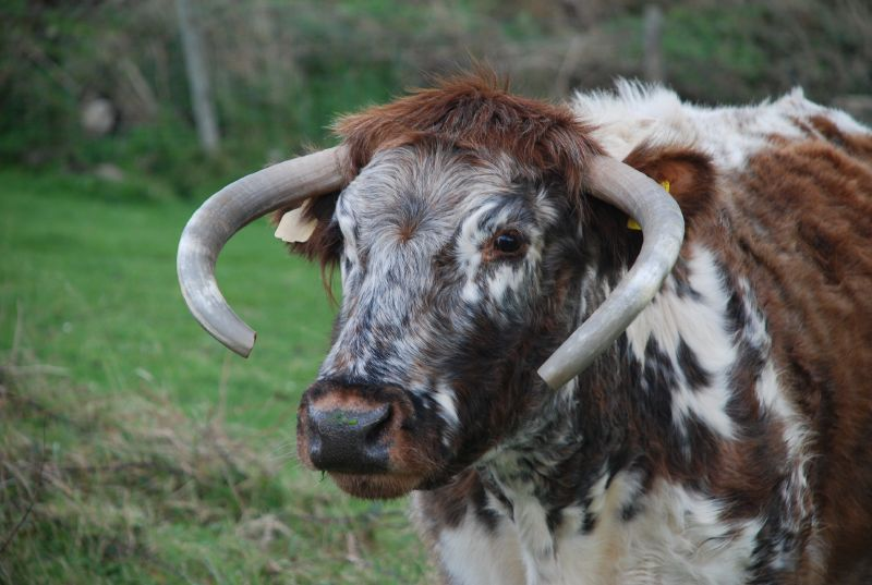 A Longhorn cow.